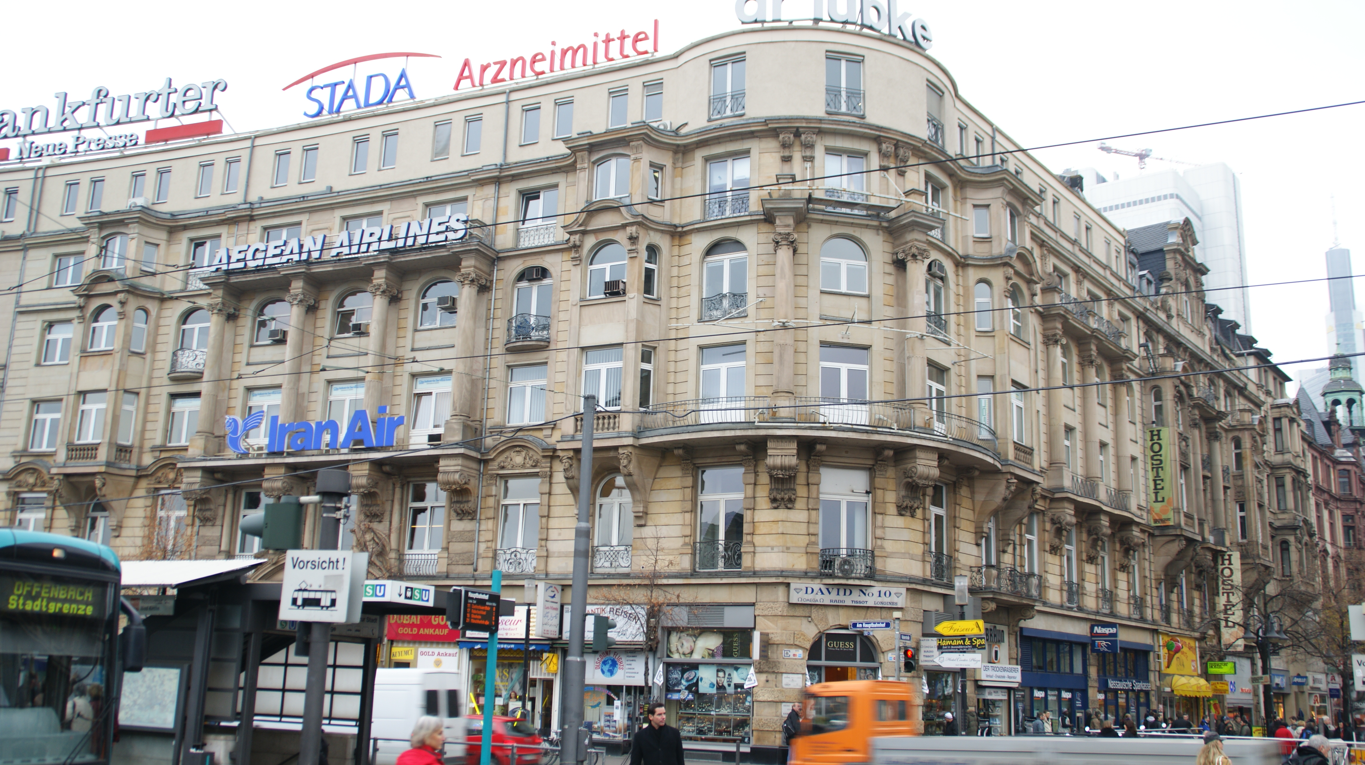 Am Hauptbahnhof 10, an office building across from the main train station in Frankfurt. Includes Aegean Air and Iran Air offices.